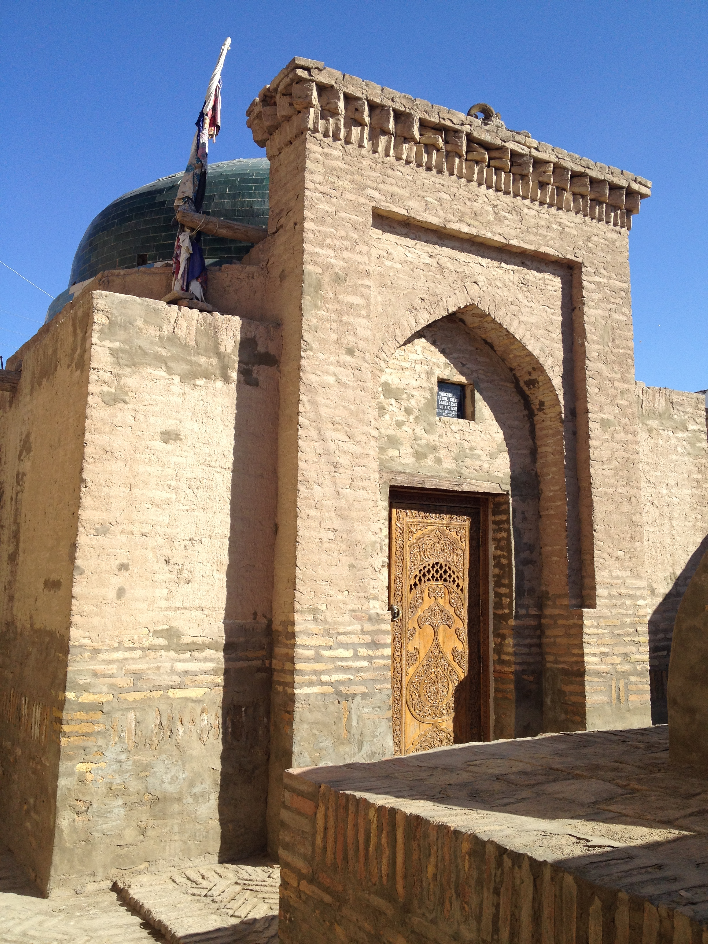 Abd Al Bobo Mausoleum, Khiva